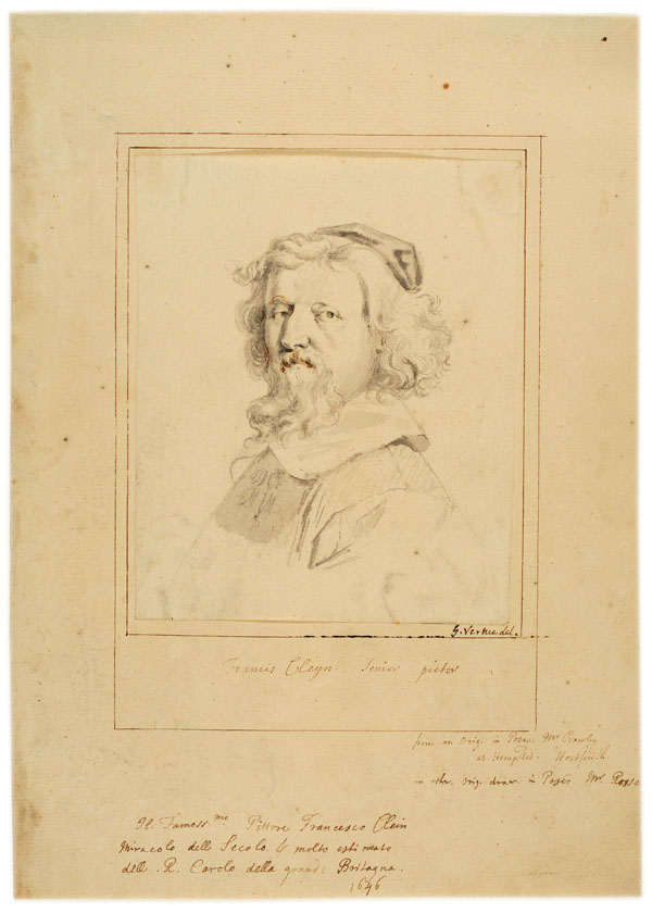 A drawing of Francis Cleyn (or Francesco Cleyn or Clein; also Frantz or Franz Klein) (c. 1582 – 1658), a German-born painter and tapestry designer who lived and worked in England.